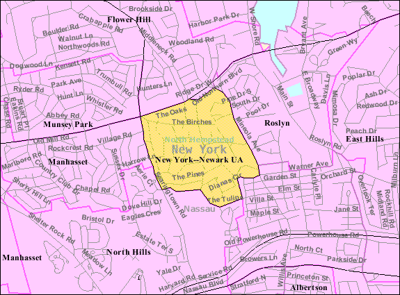 U.S. Census 2000 reference map for Roslyn Estates, New York